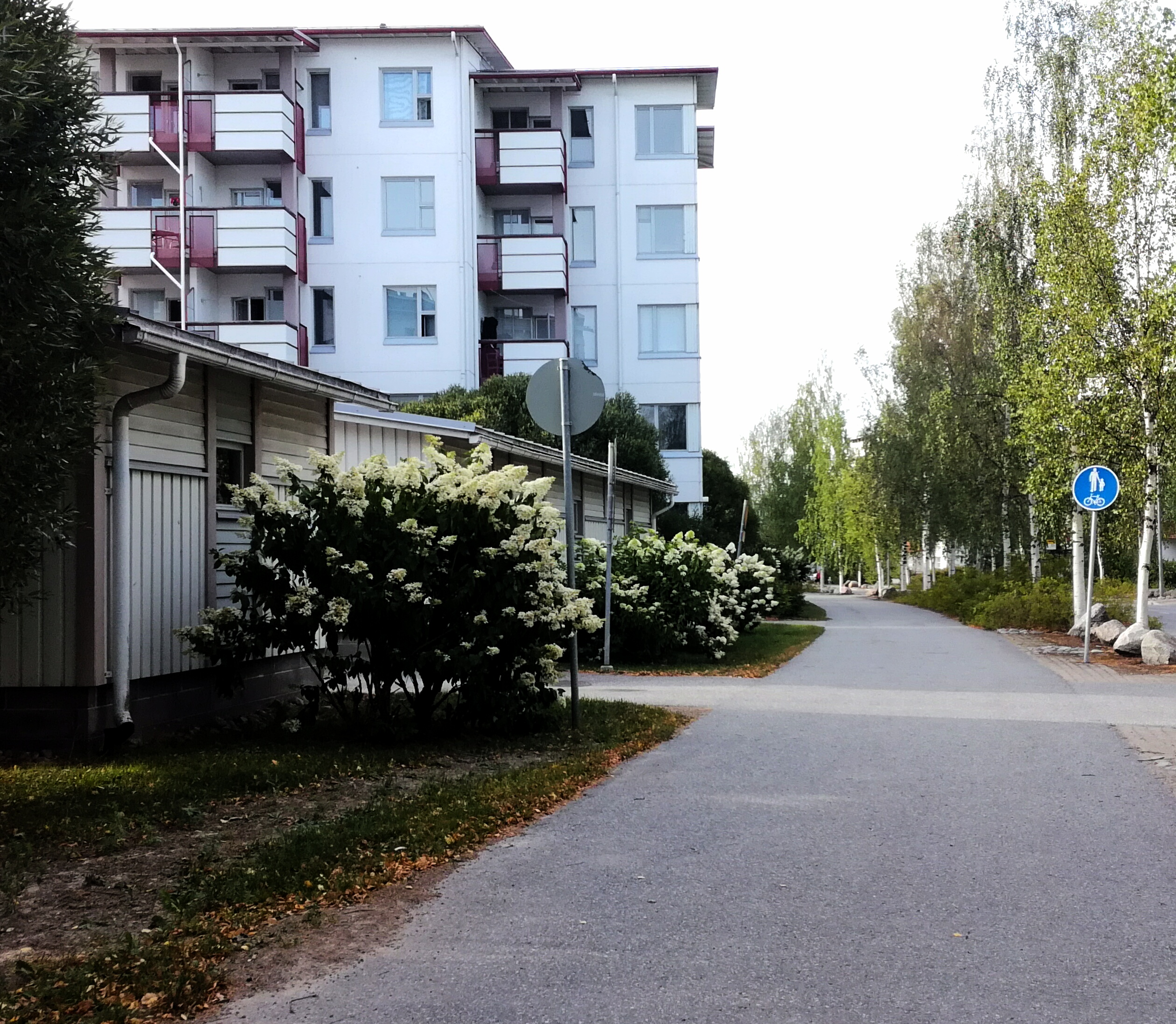 Street Wilhelm Schildtin katu in Kortesuo, Kortepohja, Jyväskylä.